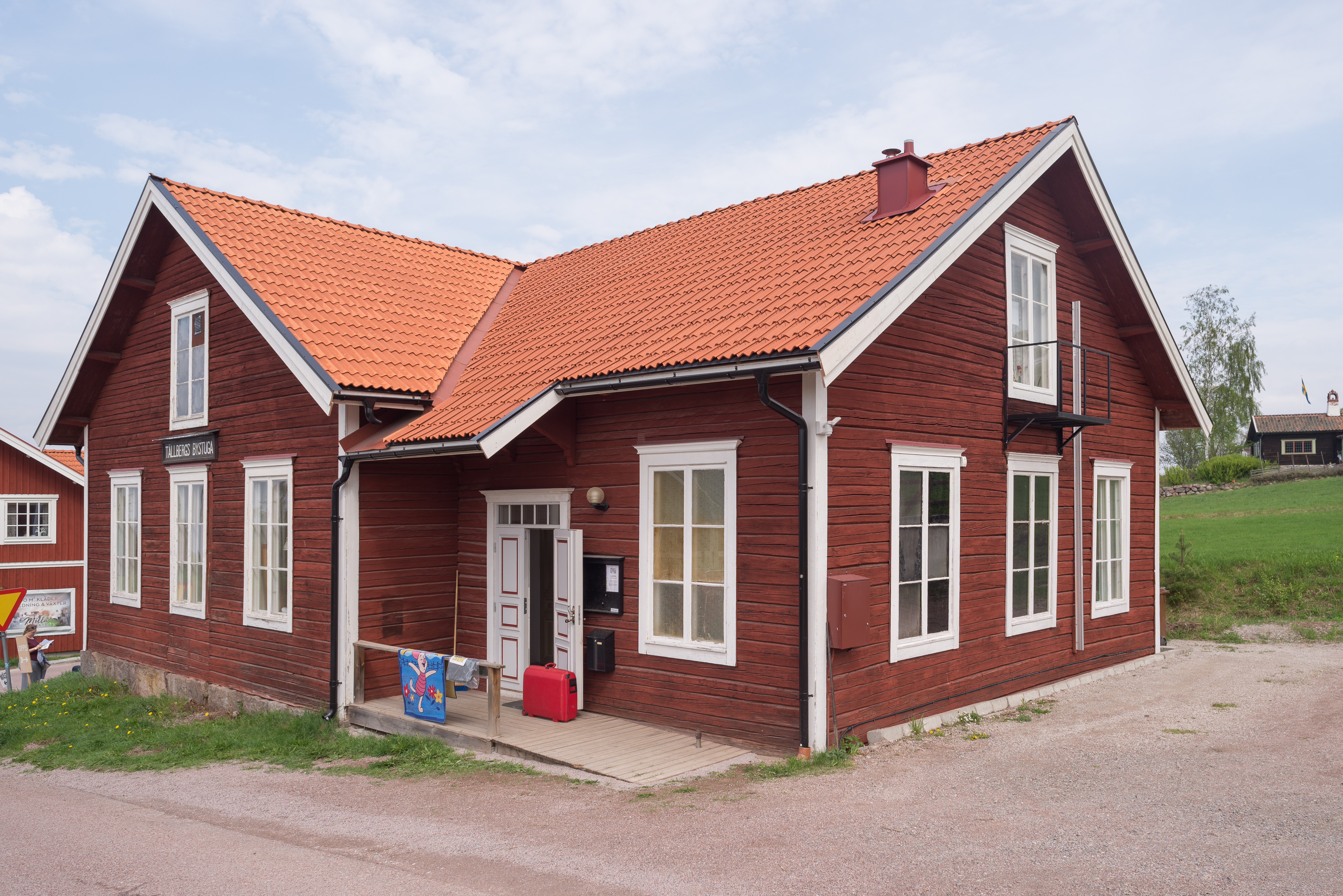 Tällbergs bystuga (community hall). Leksand municipality, Sweden.